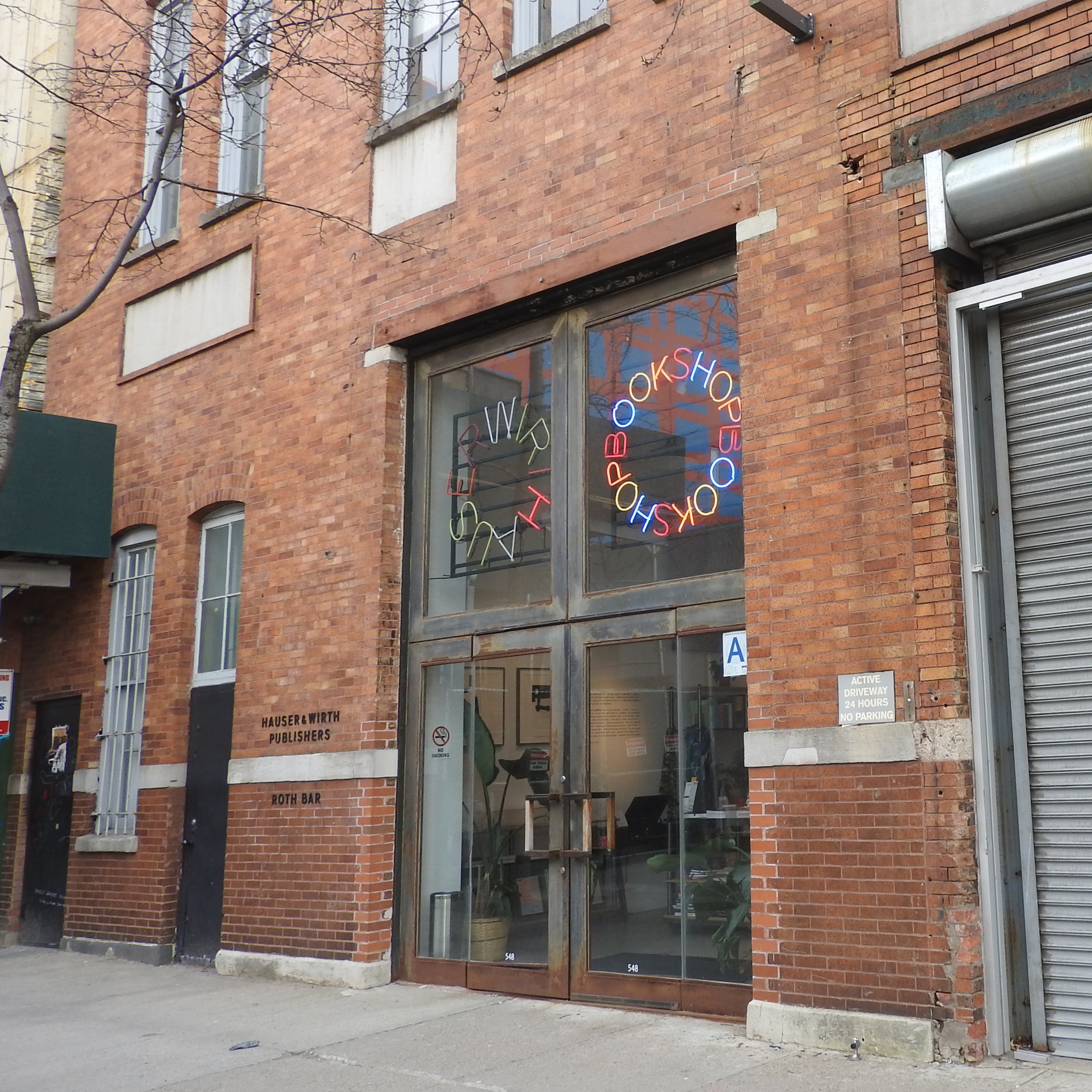 Looking south on a sunny afternoon